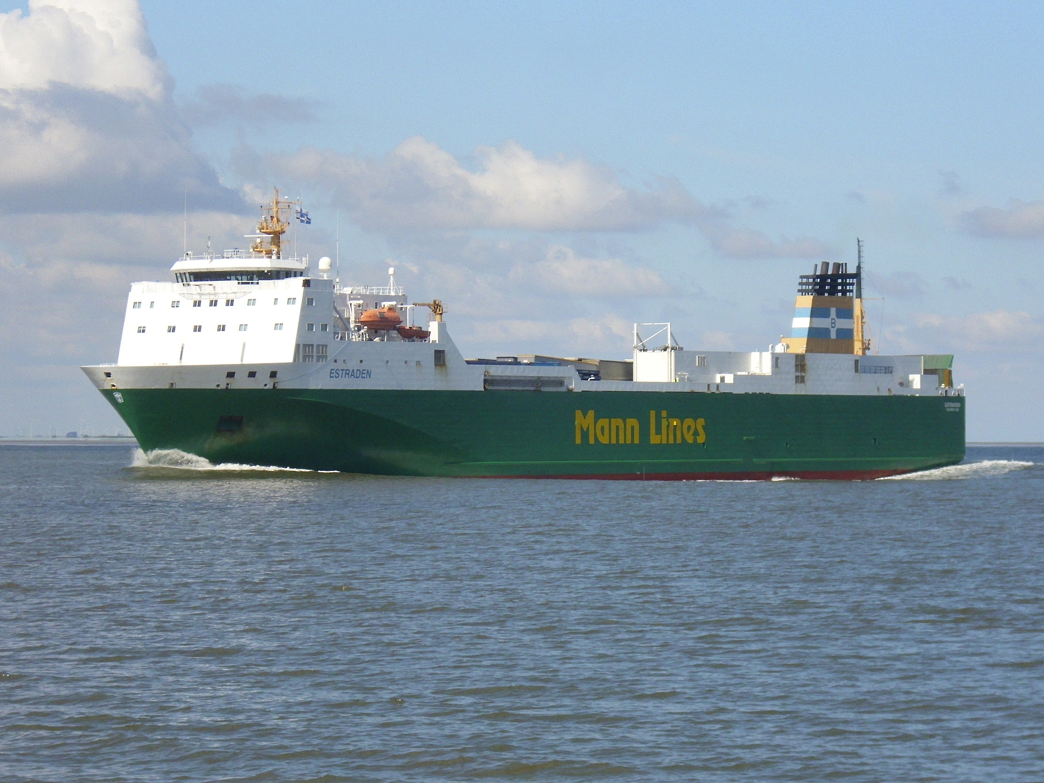 The RORO ship Estraden on its way to Bremerhaven